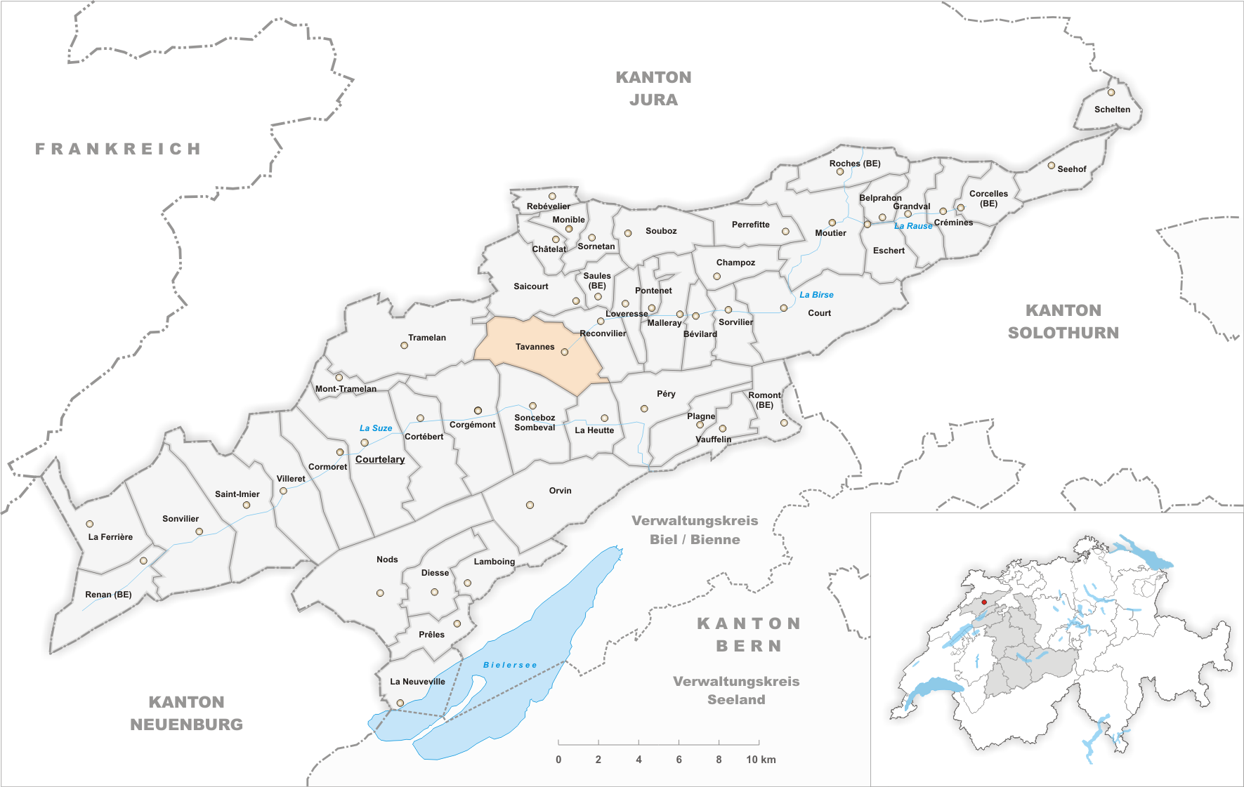 Municipality Tavannes